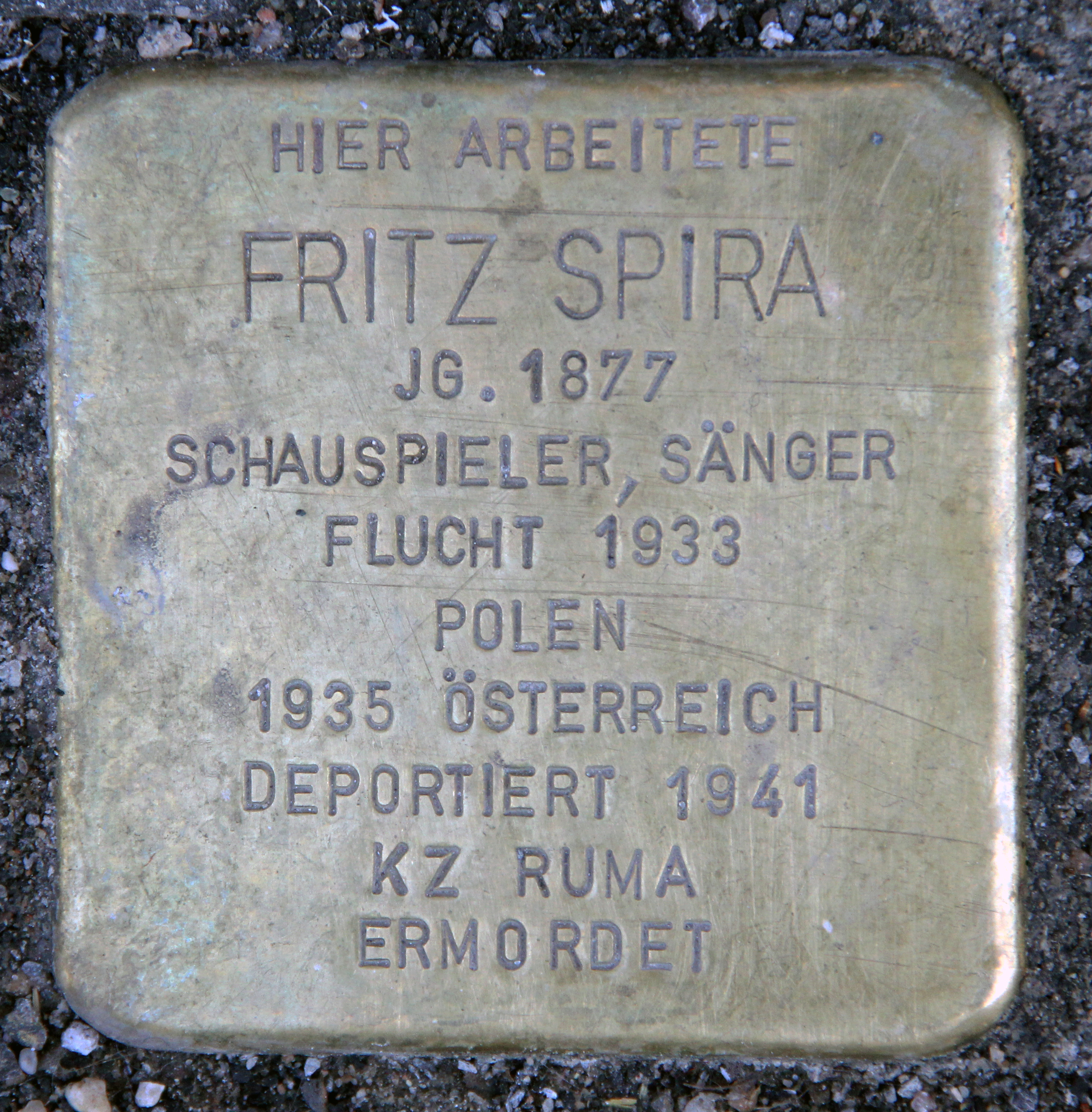 "Stolperstein" (stumbling block), Fritz Spira, Behrenstraße 55–57, Berlin-Mitte, Germany